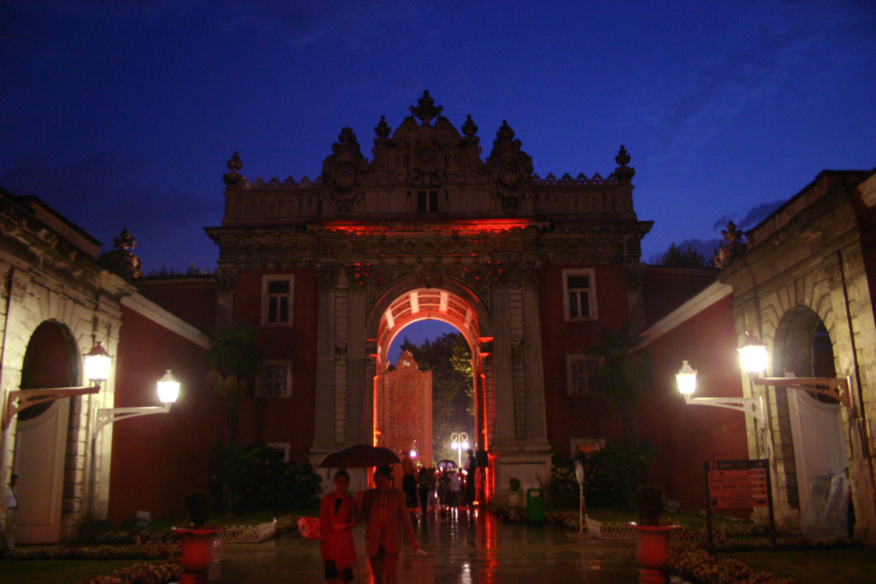 Interior Entrance to the Dolmabahce Palace, Istanbul. Photo by Bertil Videt, 2005.